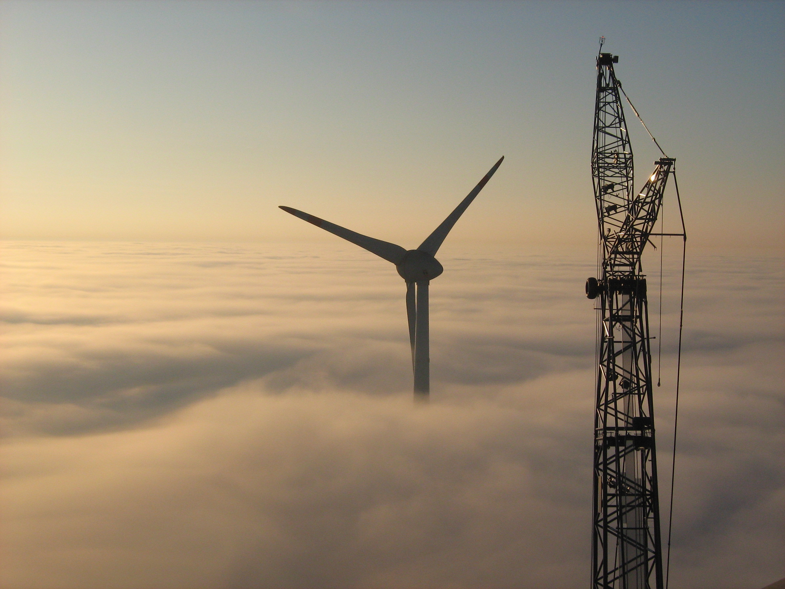 It is the prototype of the first ENERCON wind enercy converter E-126 near Emden. The picture was taken from the second E-126 at the same site.